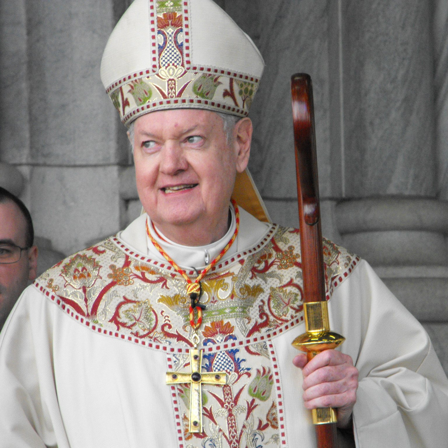 Cardinal Edward Egan, appearing outside St Patrick's Cathedral after Easter Mass, April 12, 2009. He stepped down as Cardinal three days later, on April 15, 2009.